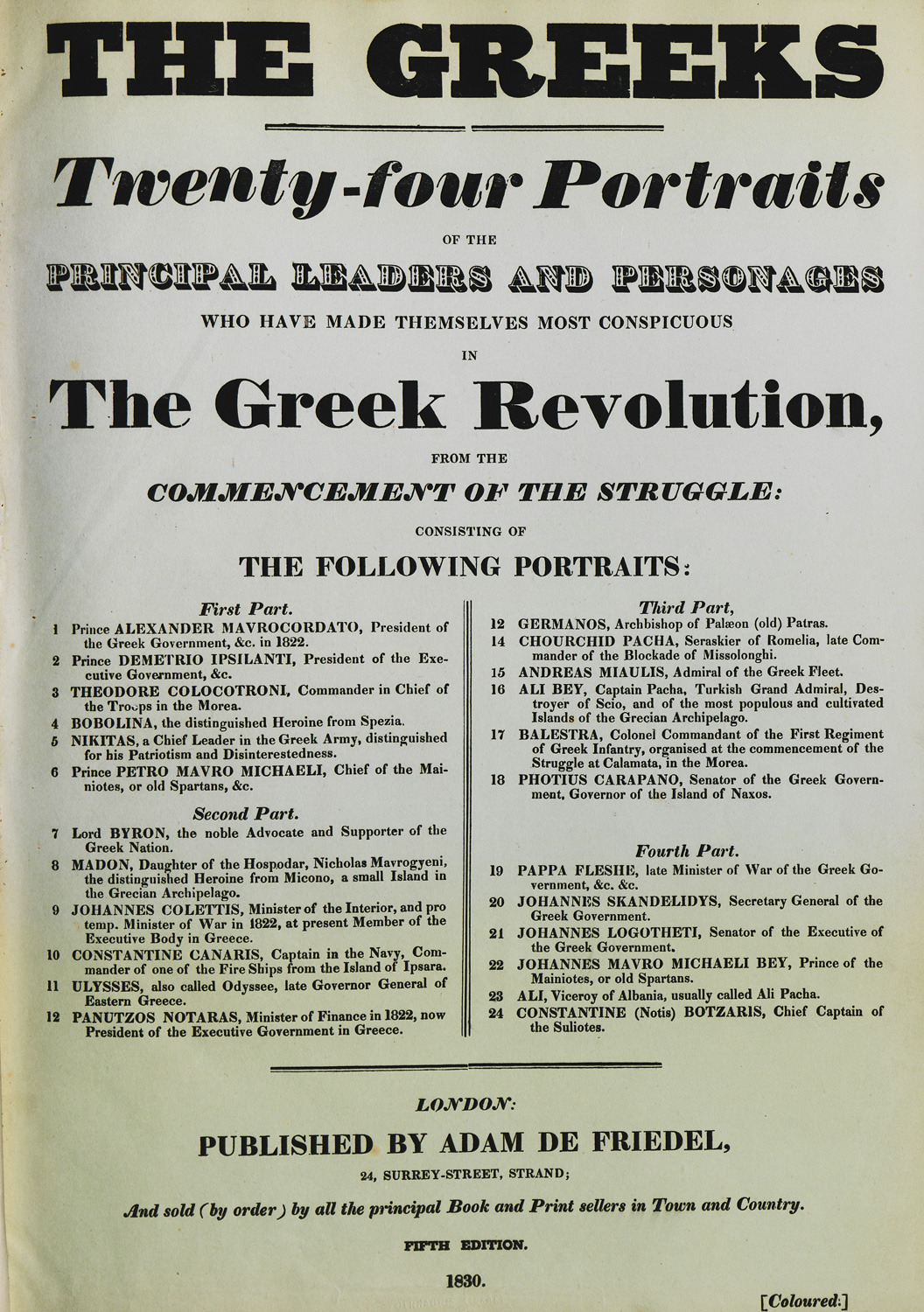 Adam de Friedel. The Greeks, Twenty-four Portraits of the principal Leaders and Personages who have made themselves most conspicuous in the Greek Revolution, from the Commencement of the Struggle, London, Adam de Friedel, 1830.